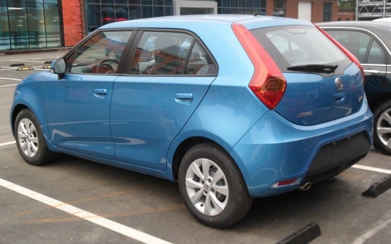 MG 3 II photographed in Shanghai, China.